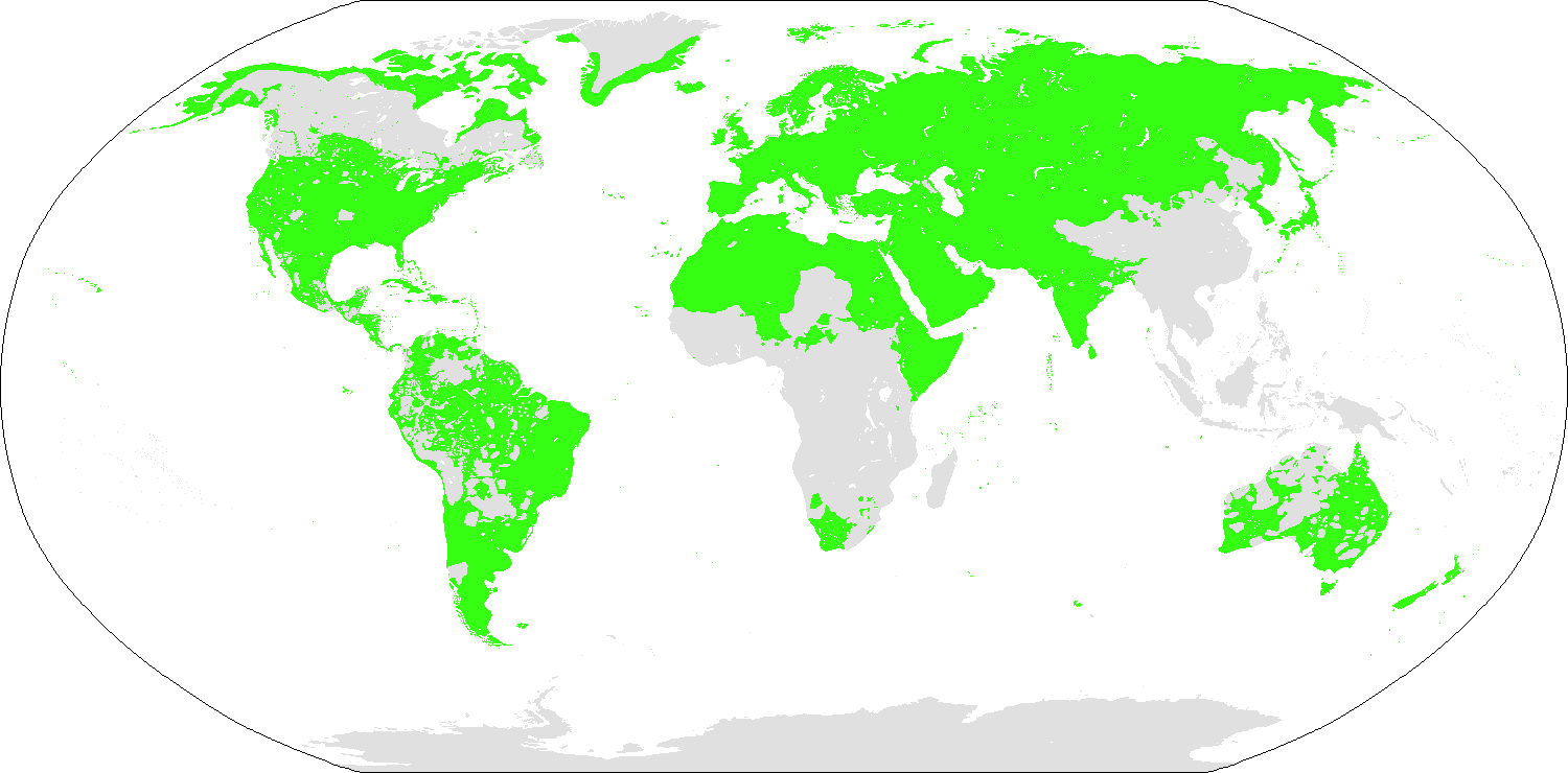 The worldwide distribution of the Nostratic macrofamily of languages according to Sergei Starostin.